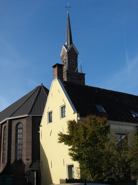 Little Church in Zaandam